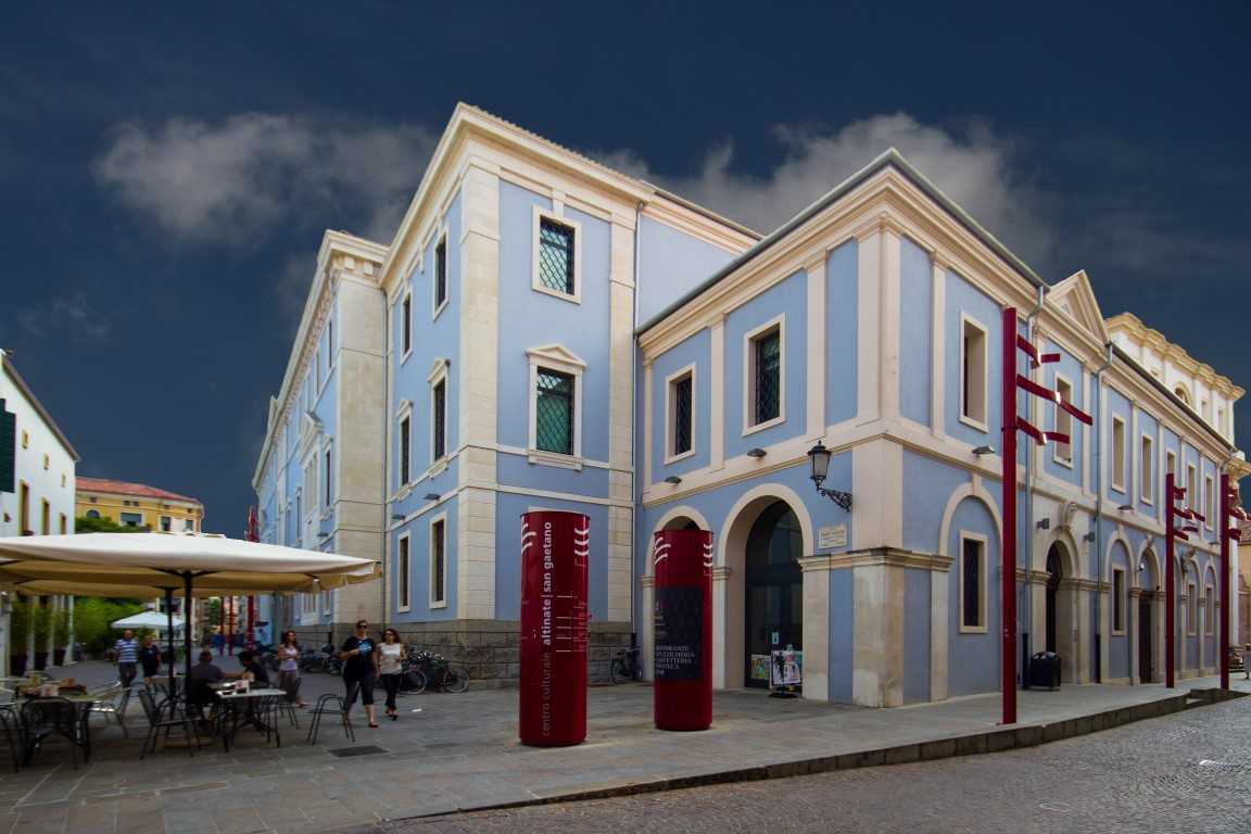 View of the San Gaetano Cultural Center in Padua, Italy.